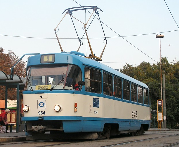 Tramway Tatra T3SUCS from DP Ostrava.